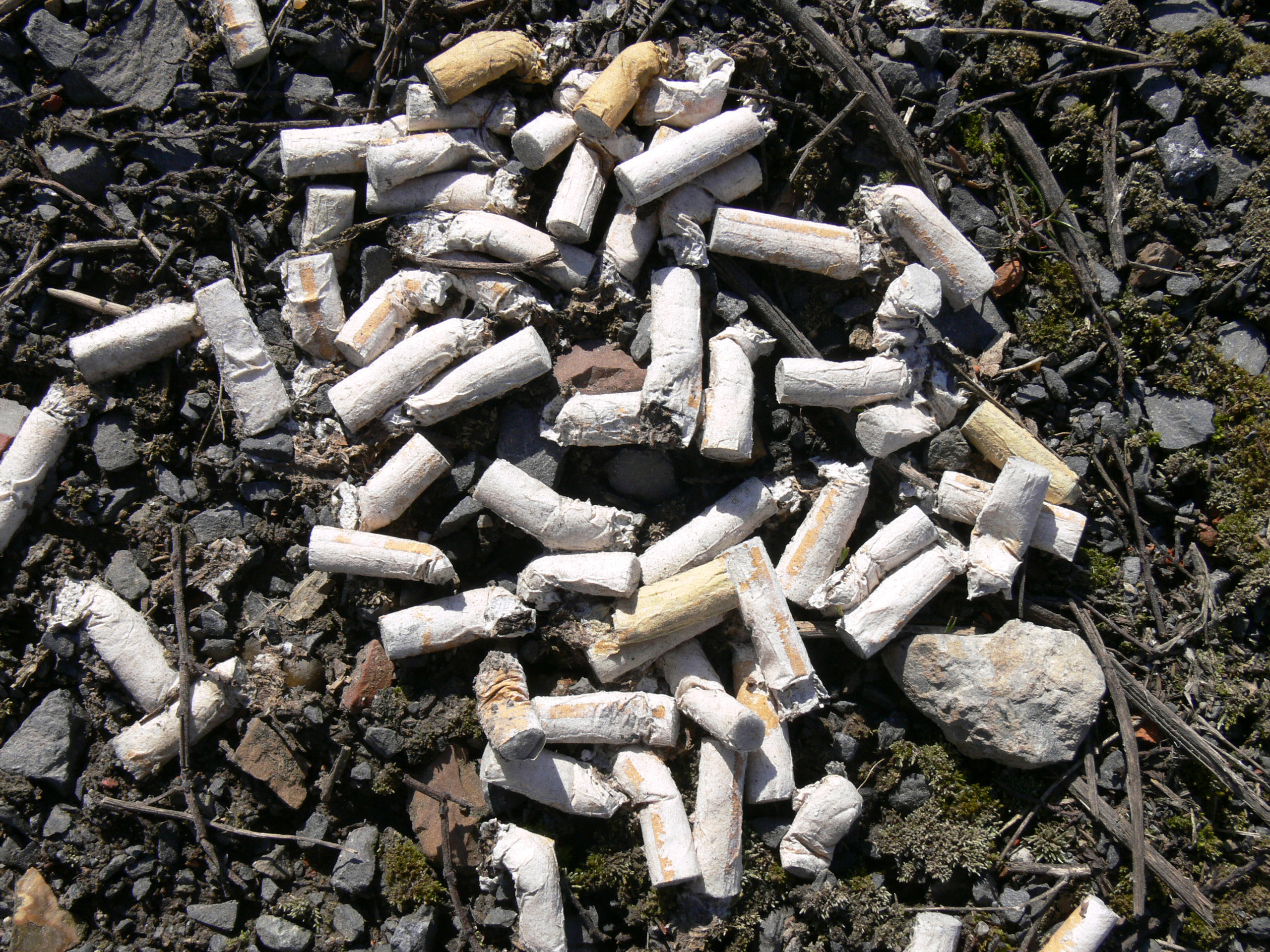 Cigarette butts, thrown on the ground, by an unscrupulous motorist. At this time, lhe paper biodegraded, but not filters. Pictures taken on a roadside, near Aire-sur-la-Lys, France.